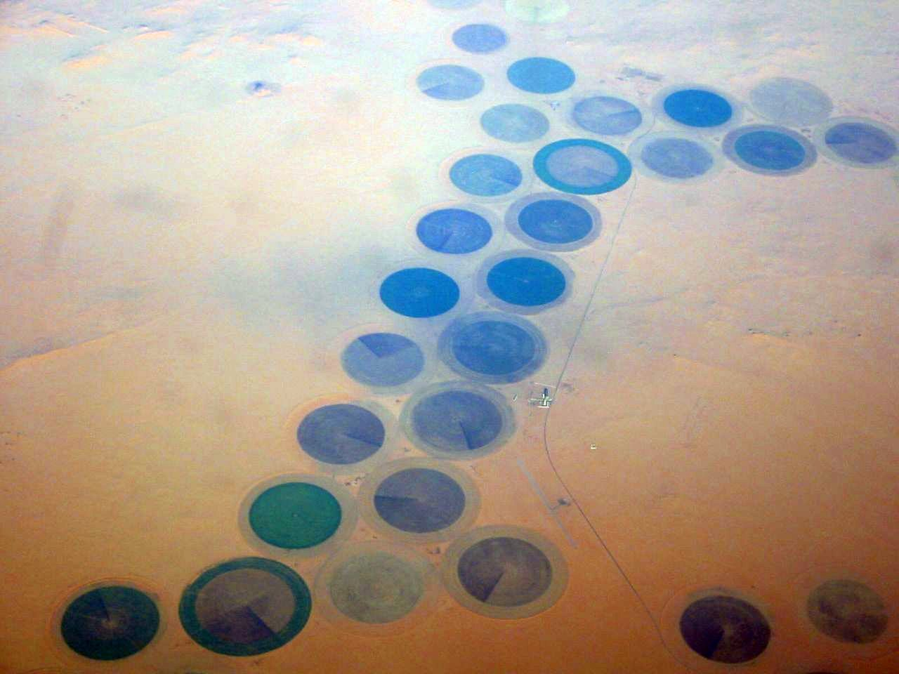 Libyan pivot irrigation in Al Kufrah, southeast Cyrenaica. Oil wealth has enabled Libya to pursue extravagant projects such as agriculture in the Sahara Desert.